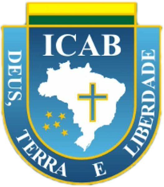 Simbol of Brazilian Catholic Apostolic Church